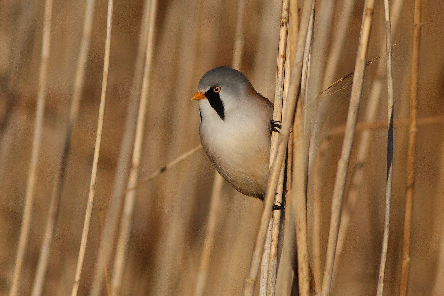 Bearded Reedling